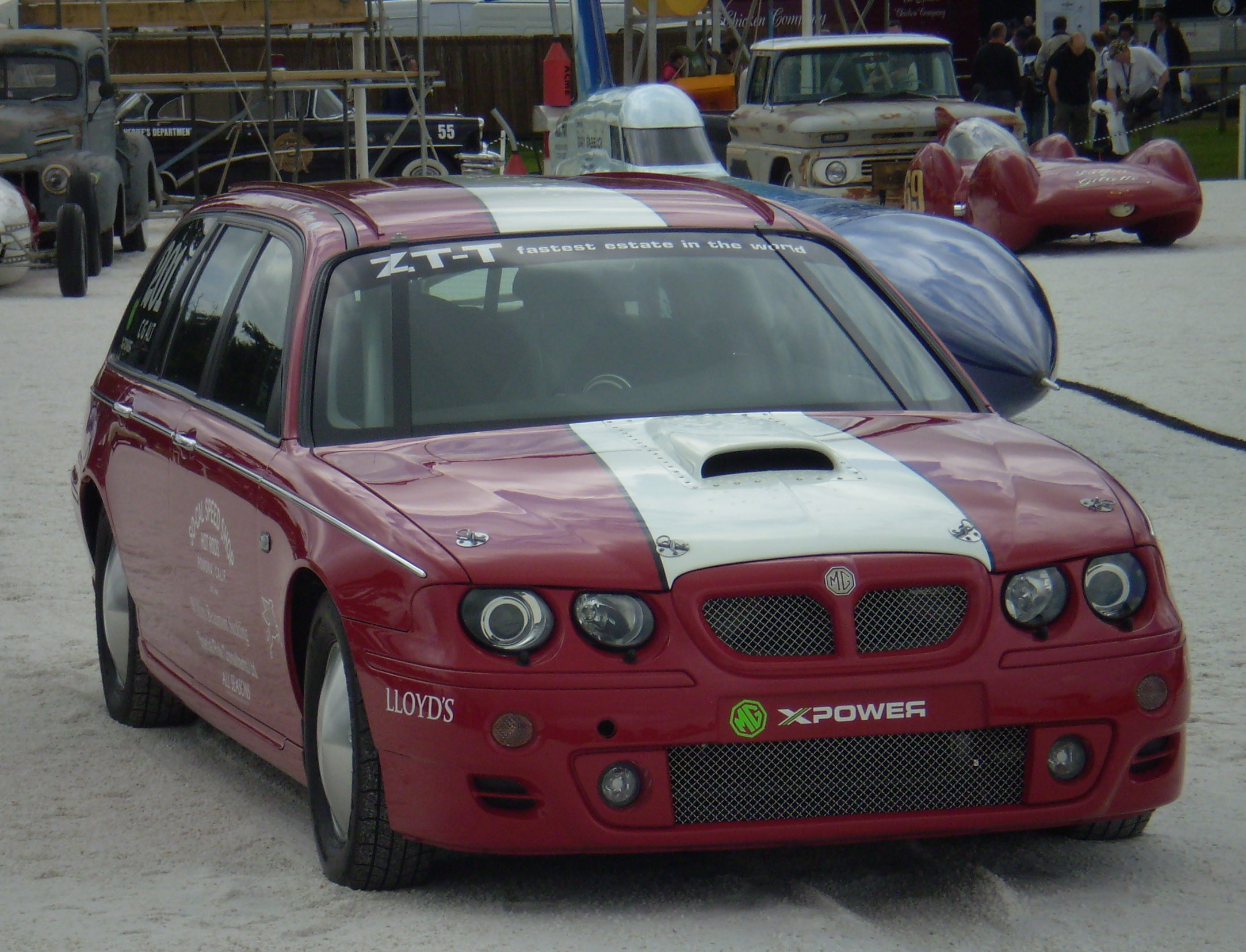 MG ZT-T Estate Car World Speed Record exhibited at the 2007 Goodwood Festival of Speed